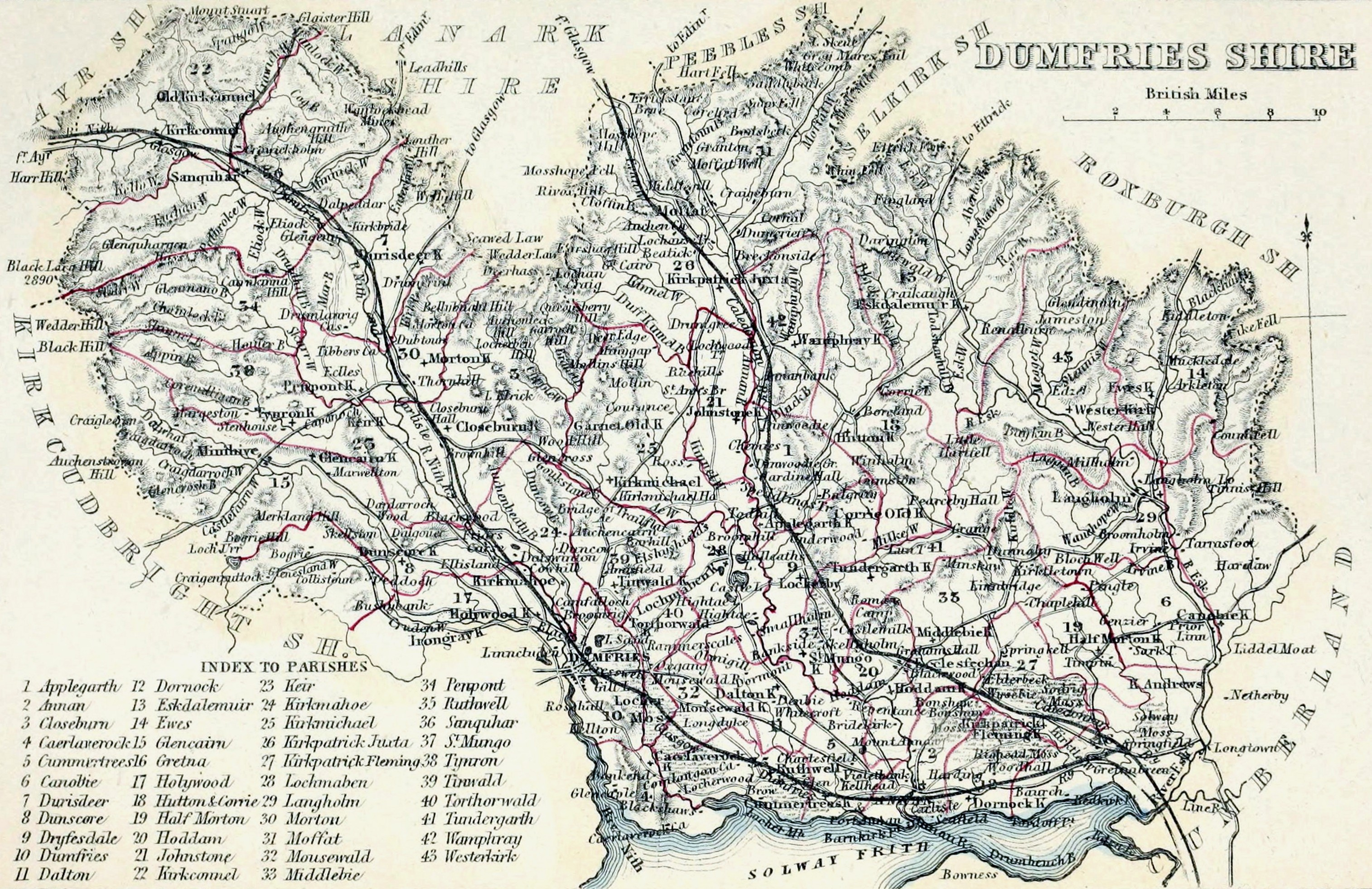 DUMFRIESSHIRE Civil Parish map. The Imperial gazetteer of Scotland. Vol.I. by Rev. John Marius Wilson.